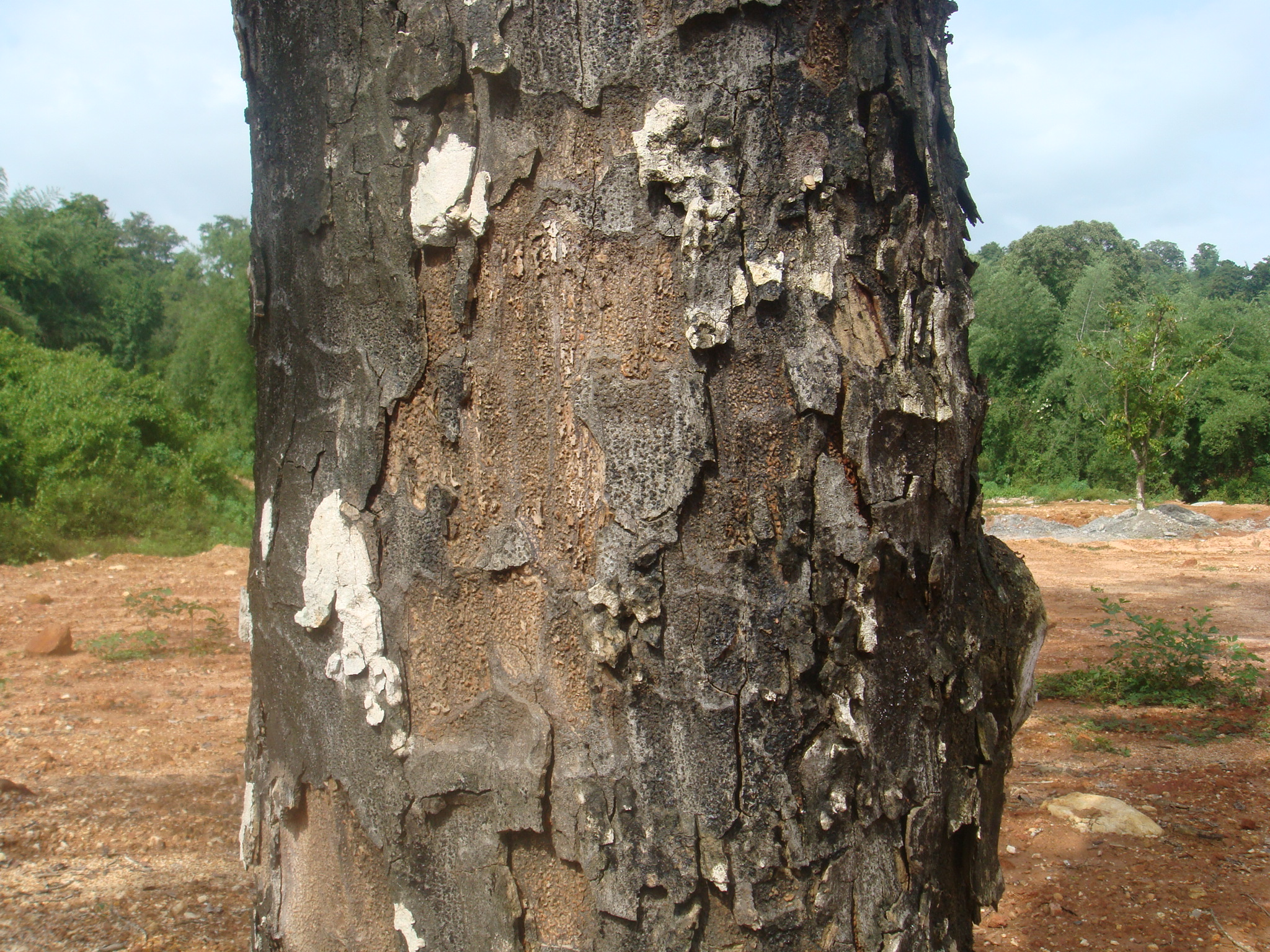 Jack fruit tree bark